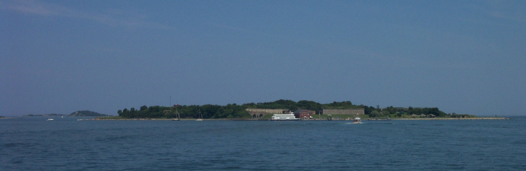 Georges Island in Boston Harbor. For more information see the Wikipedia article Georges Island.